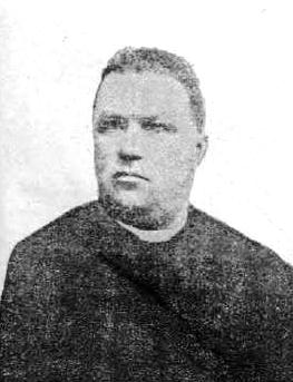 Anton Gregorčič (1852-1925), Slovene priest and politician